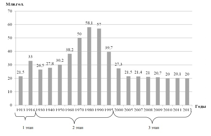 График "Динамика поголовья крупного рогатого скота в России в хозяйствах всех категорий" (из Г.М. Винокуров и др., 2014)